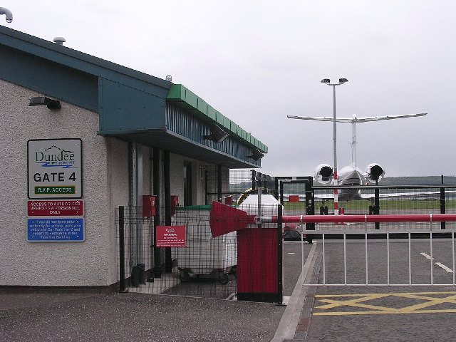 Dundee Airport. The airport at Dundee is built on land reclaimed from the Firth of Tay. (A comparison with the 1940s map is interesting). Daily flights connect Dundee with London City.